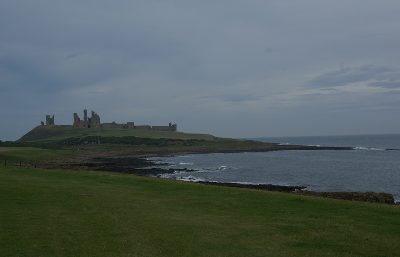 Dunstanburgh Castle, Northumberland, England. View from the south.